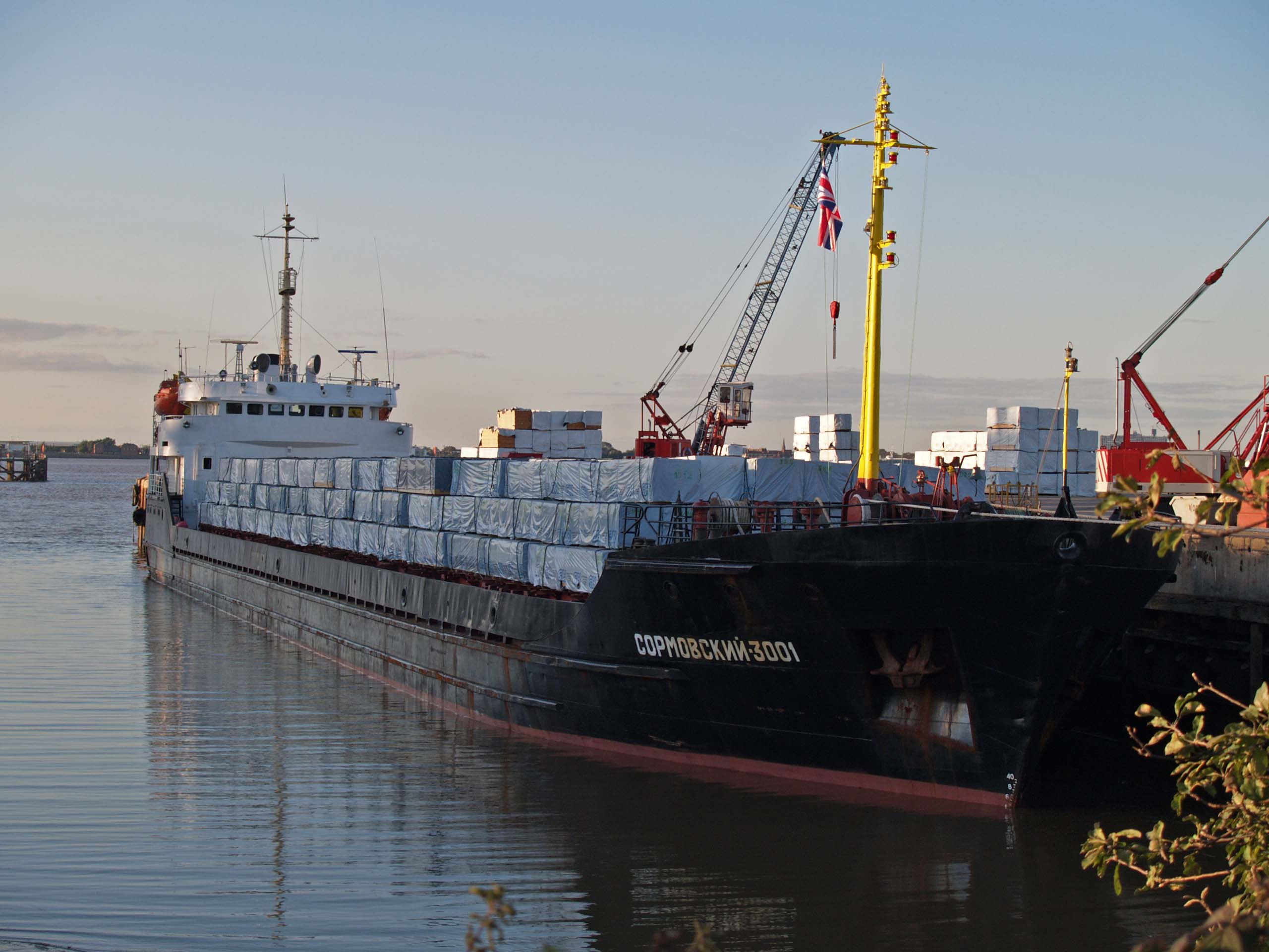 "Sormovskiy 3001" 3100dwt alongside at New Holland with a cargo of packaged timber.